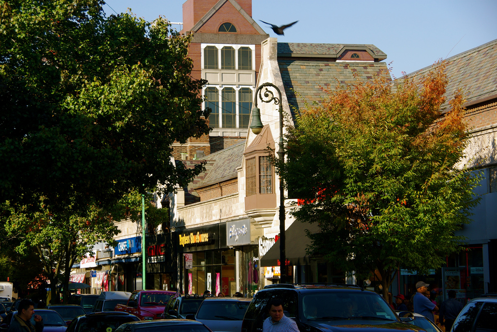 Shopping District on 82nd Street between Roosevelt and 37th Avenues, Jackson Heights, New York. This is within the NYC landmarked Jackson Heights Historic District.